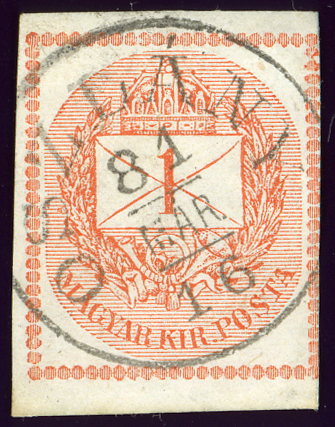 Kingdom of Hungary, Stamp for newspaper issue 1874, cancelled at OSZLÁNY, Slovakia in 1881.